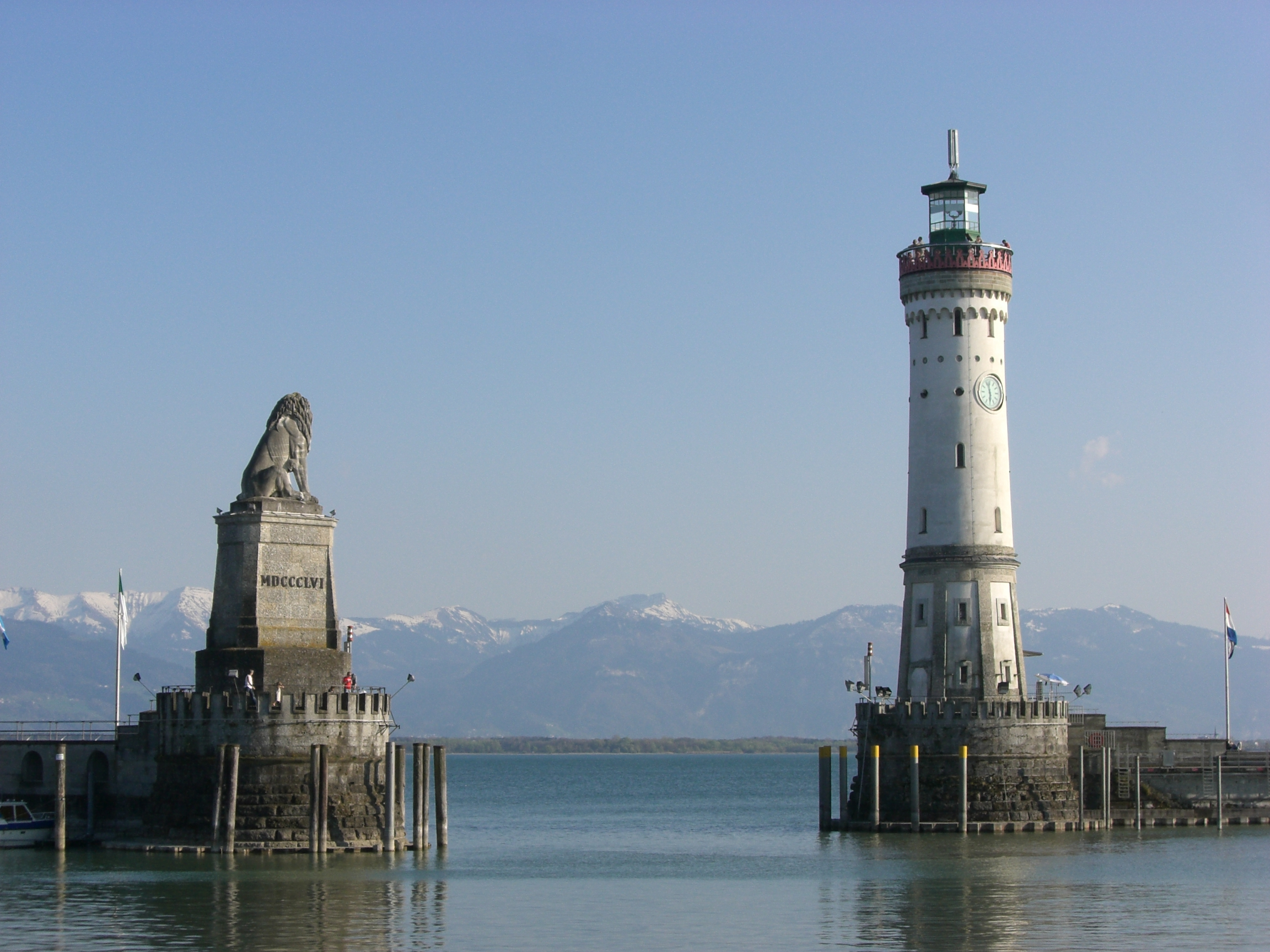 Harbor entrance with Bavarian Lion and Lighthouse, Lindau (Lake Constance, Bavaria, Germany)